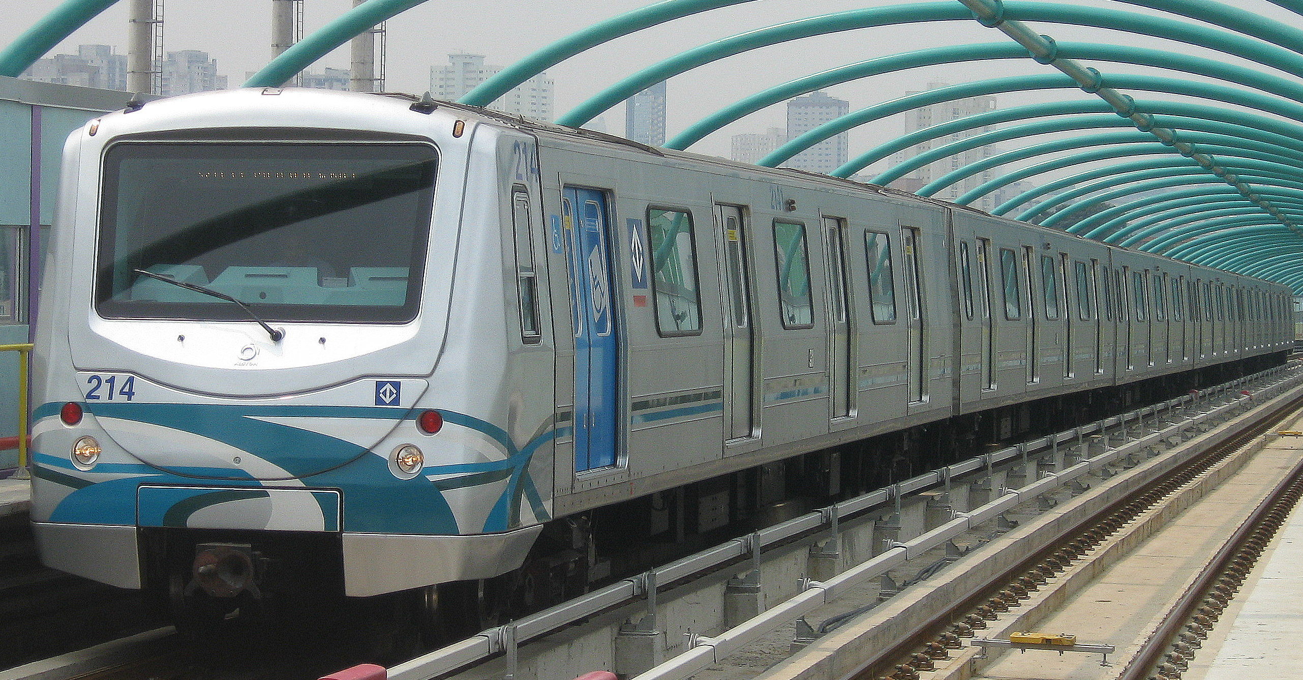 Trem Alstom chegando na Estação Tamanduateí